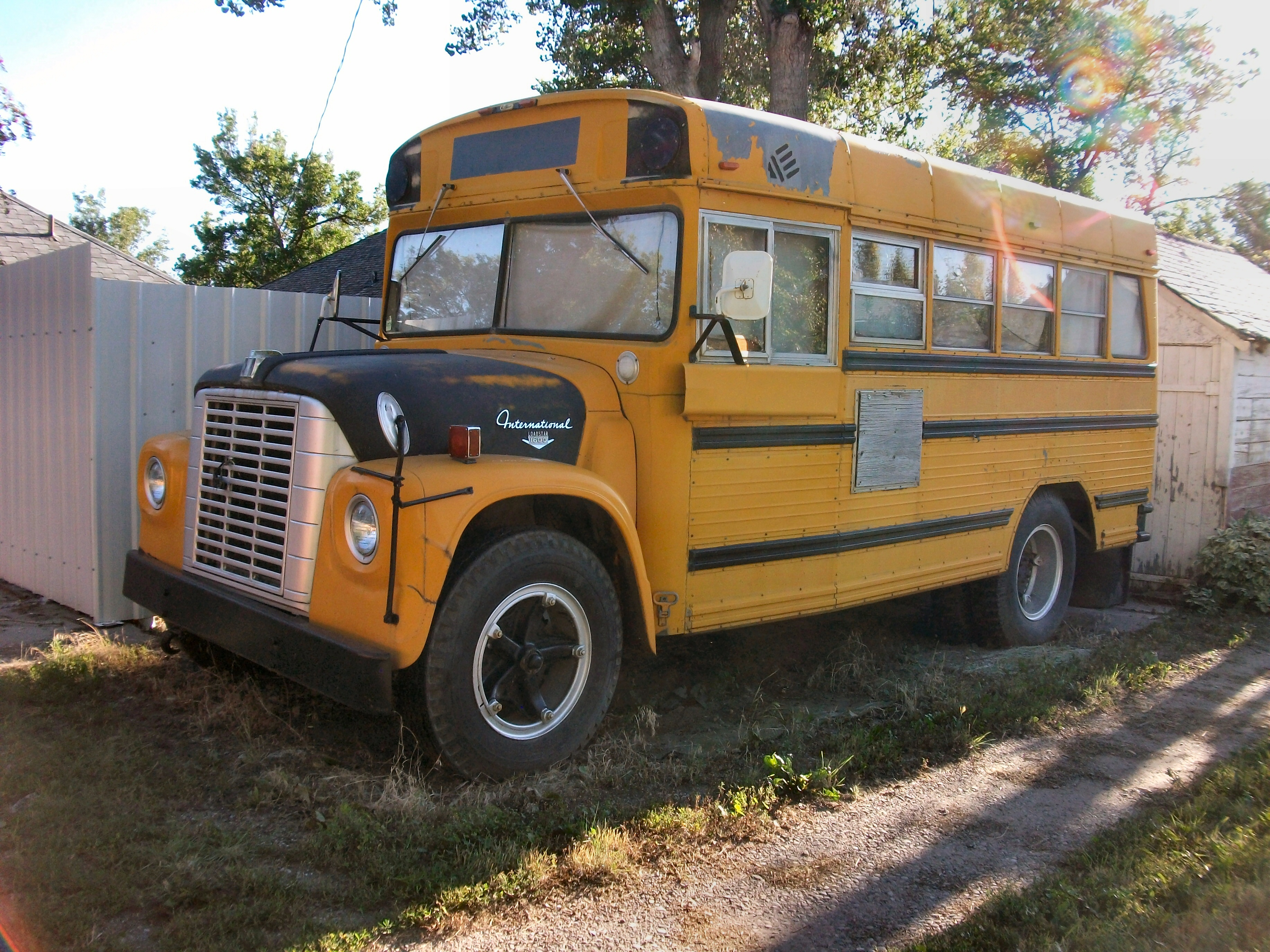 A short wheelbase International school bus